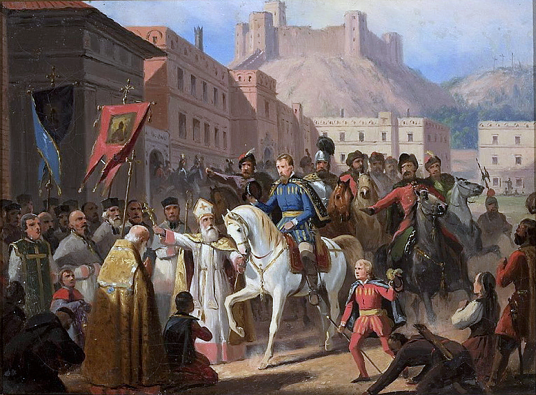 Bishop Paul Holszański refuses Sigismund Augustus to go to a Protestant church in Vilnius